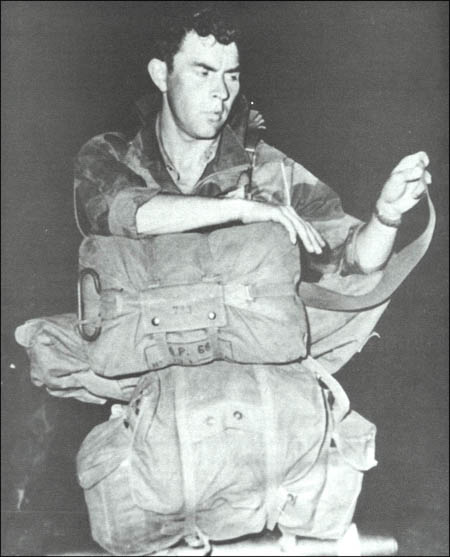 original description: "Belgian paratrooper rigging for Stanleyville jump" [1]